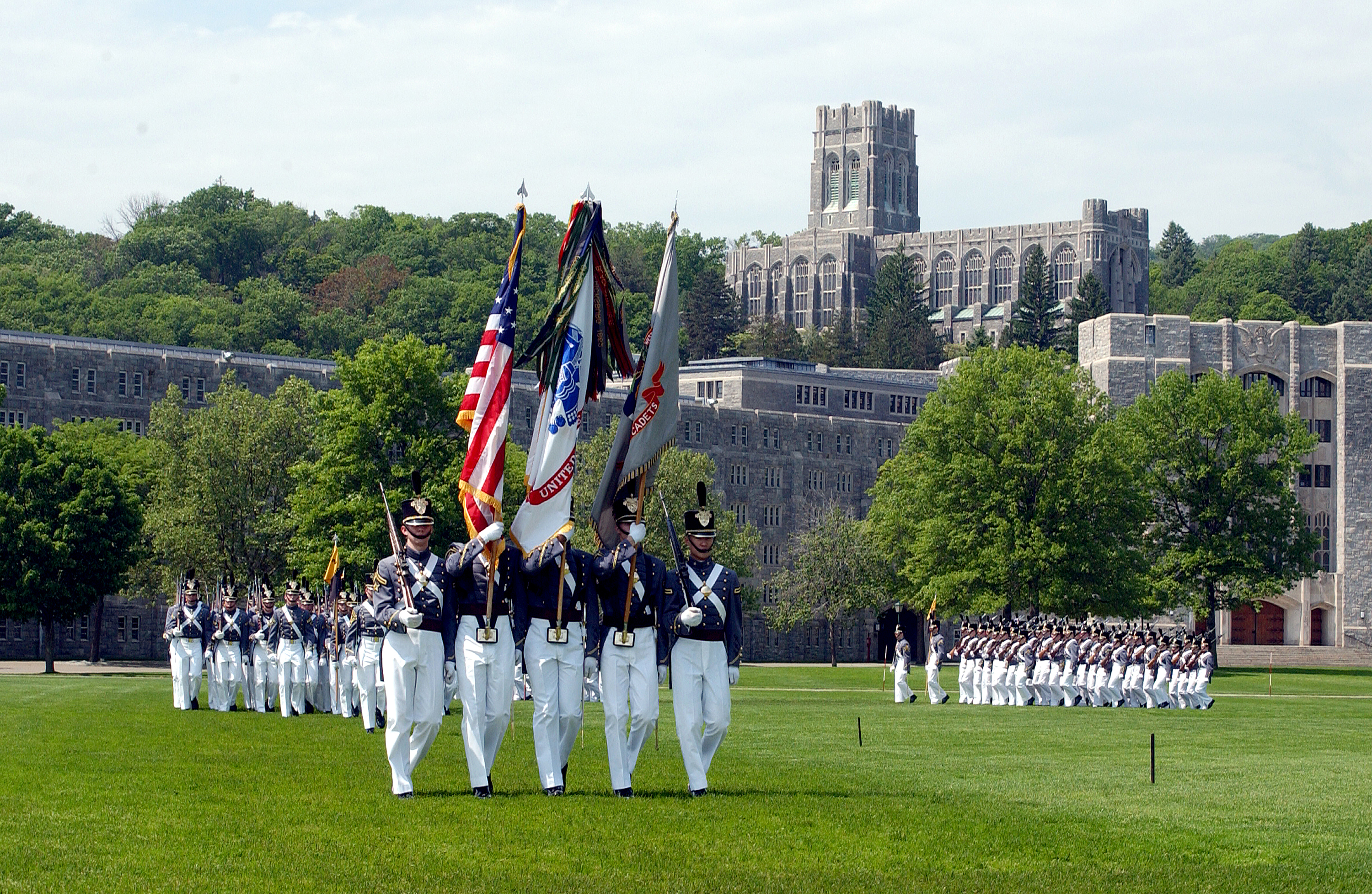 Cadet color guard on parade on the Plain